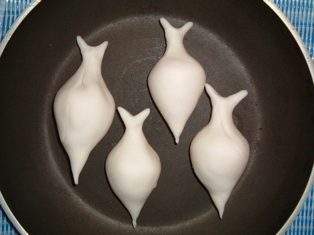 Yomari, Nepalese sweet bread